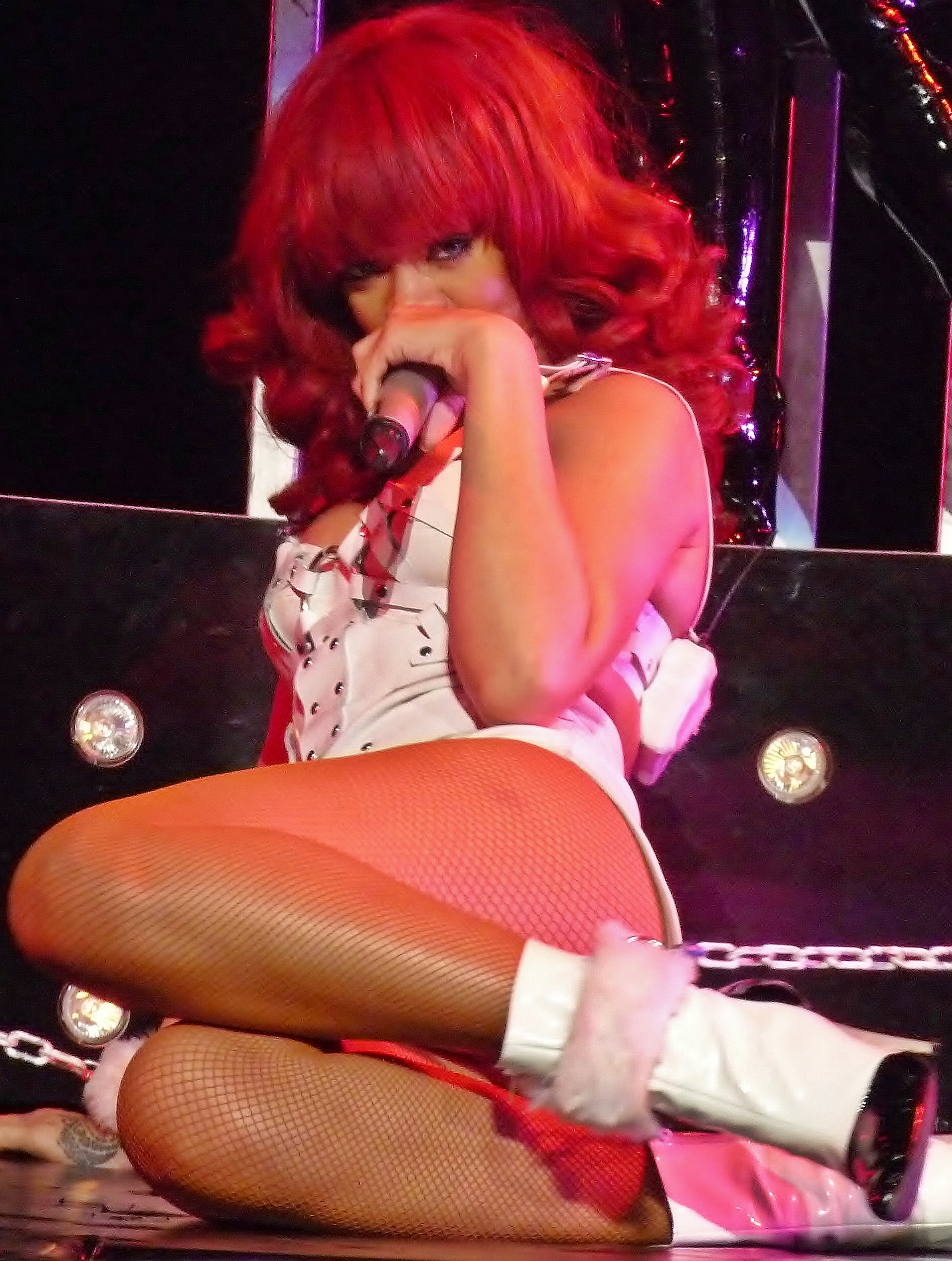 Rihanna live at Bankatlantic Center, Sunrise, Florida, on her tour The LOUD Tour. 14th July 2011